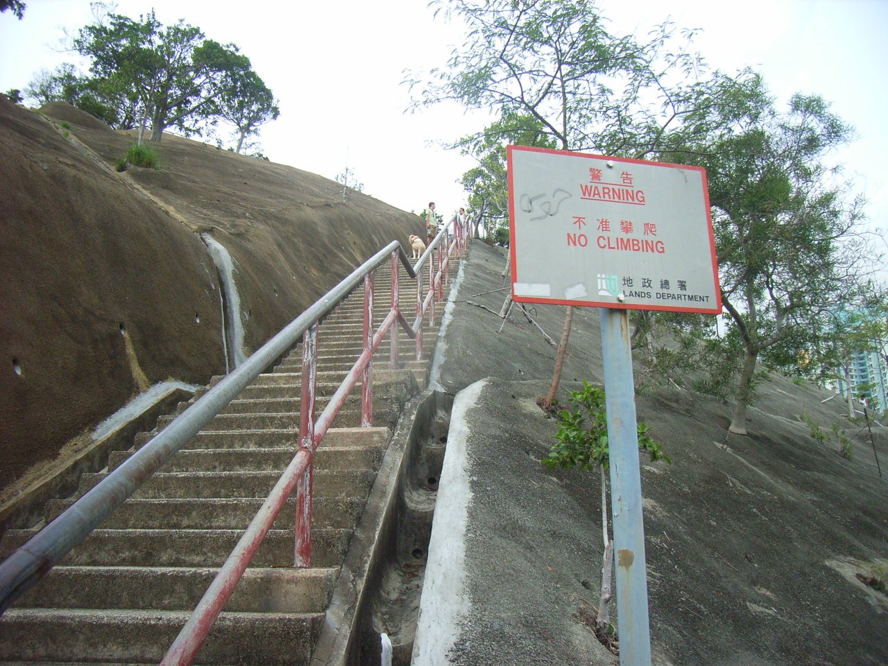 深水埗區石硤尾 嘉頓山 地政總署通告